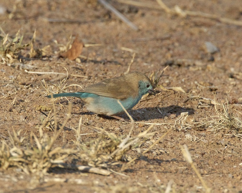 Blue-breasted Cordonbleu (Uraeginthus angolensis)